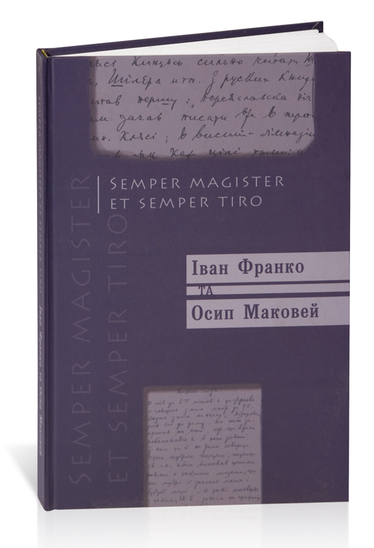 Natalya Tykholoz. Semper magister et semper tiro (book cover)